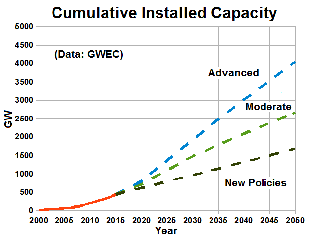 Global Wind Power Cumulative Installed Capacity, with forecast (data source: GWEC, Global Wind Statistics 2015[1] & Global Wind Energy Outlook 2014[2]) By 2050, wind power is expected to provide between 11% and 31% of the world's electricity.